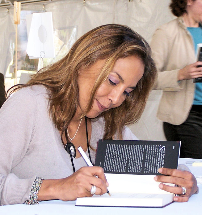 Malika Oufkir at the 2006 Texas Book Festival, Austin, Texas, United States.